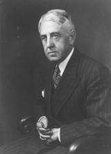 Wallace Humphrey White, Jr. (1877 - 1952) was a prominent American politician.